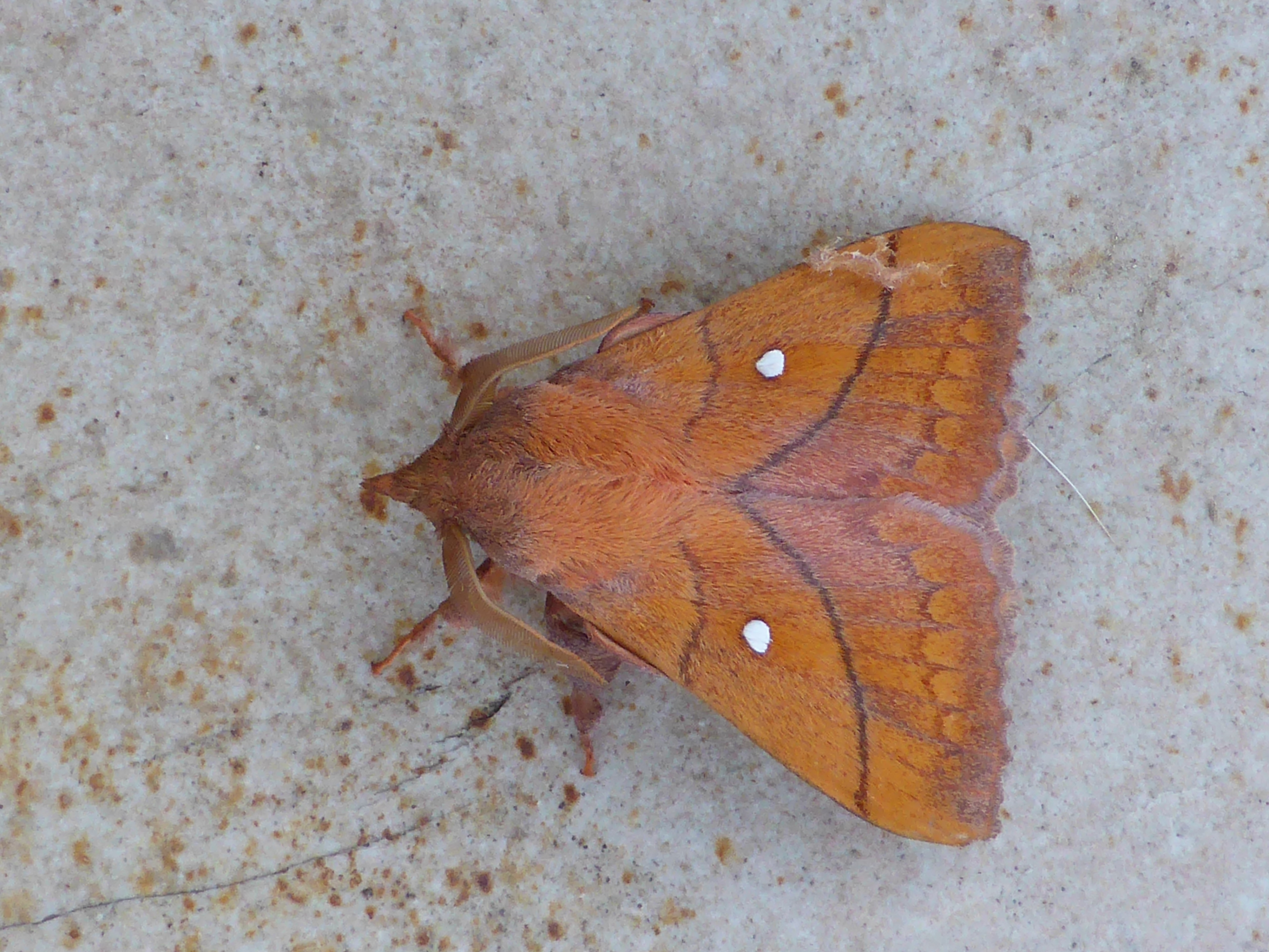 Male of Odonestis Pruni